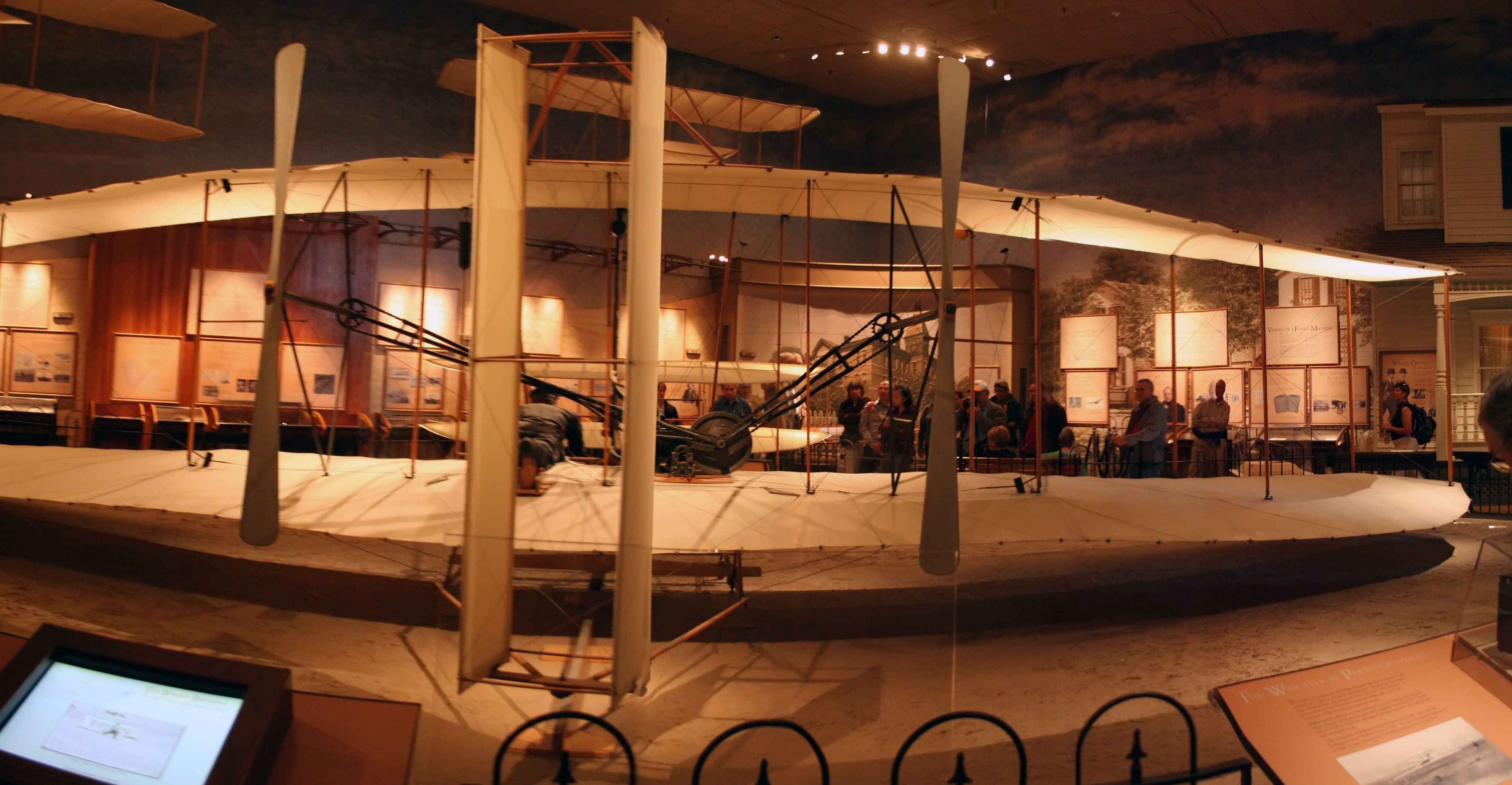 Photo of the Wright Flyer at the Air and Space Museum